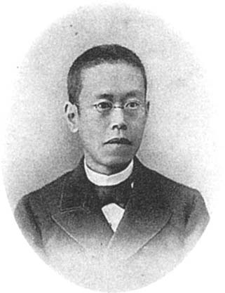 Y. Motora, Professor of Psychology, Ethics and Logic.